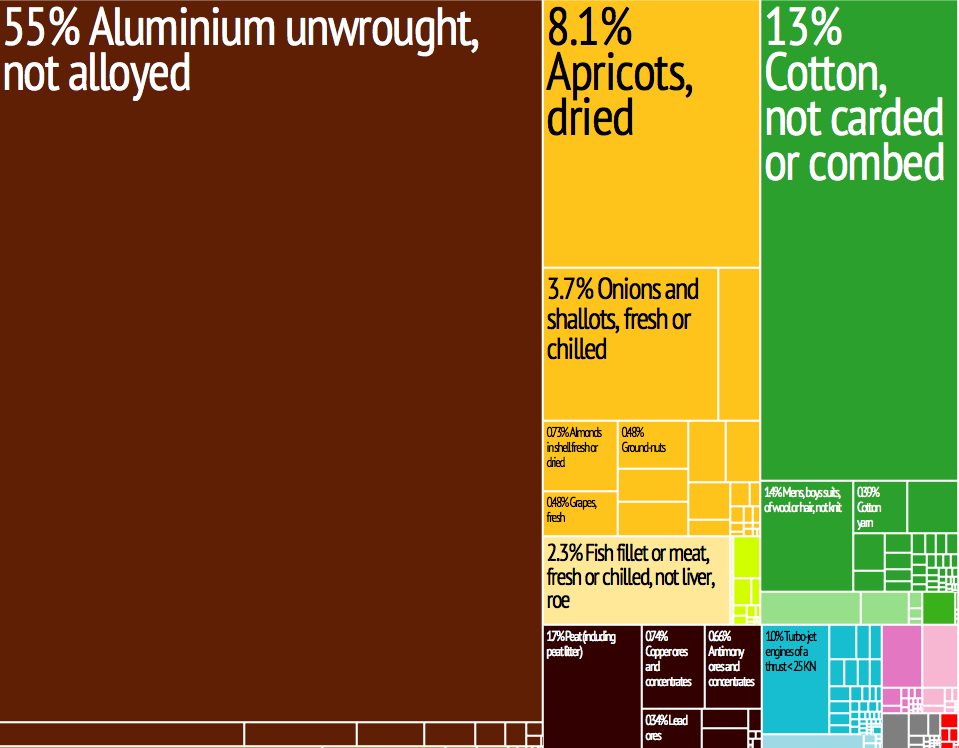 Tajikistan Export Treemap from MIT Harvard Economic Complexity Observatory